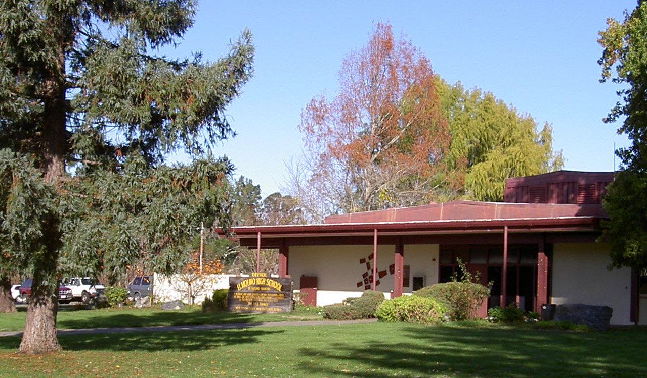 El Molino High School (Forestville, California) office entrance